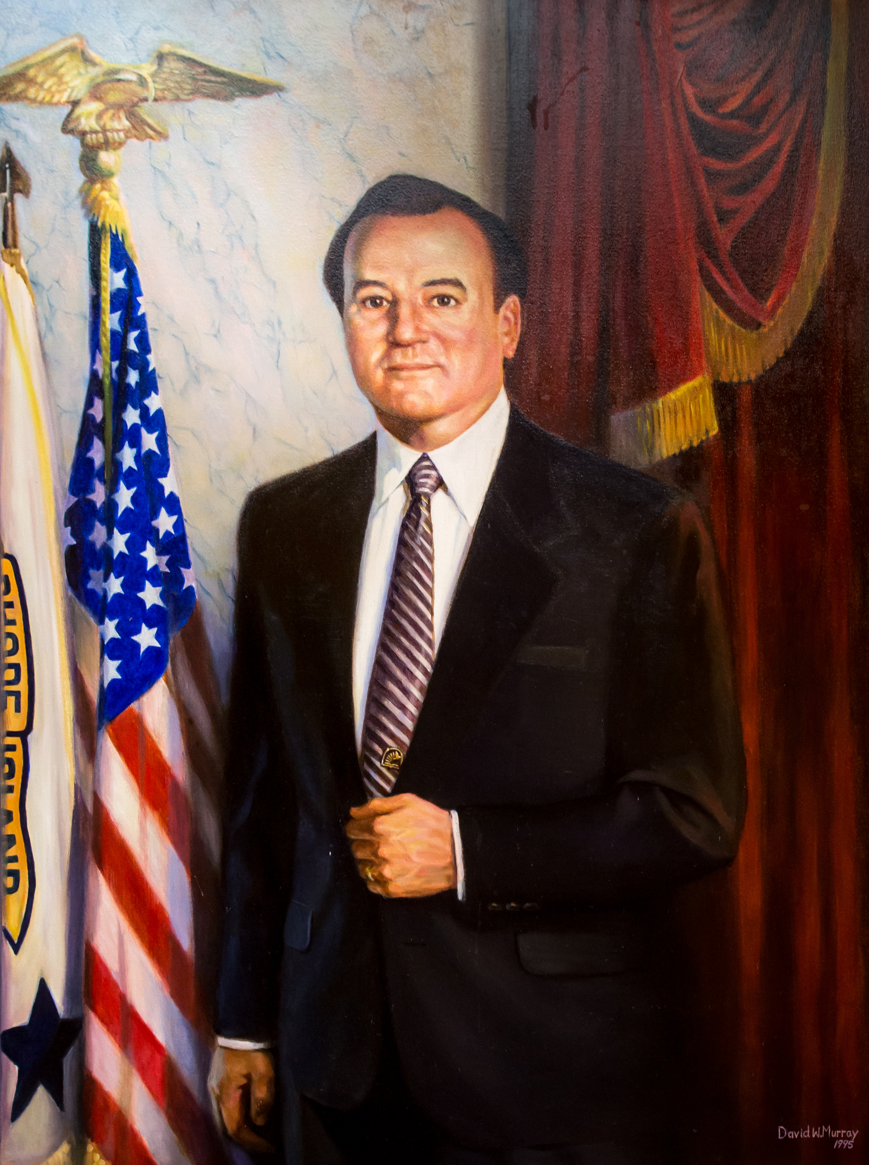 RI Governor Edward D. DiPrete 1985-1991. Official portrait in the Rhode Island State House.